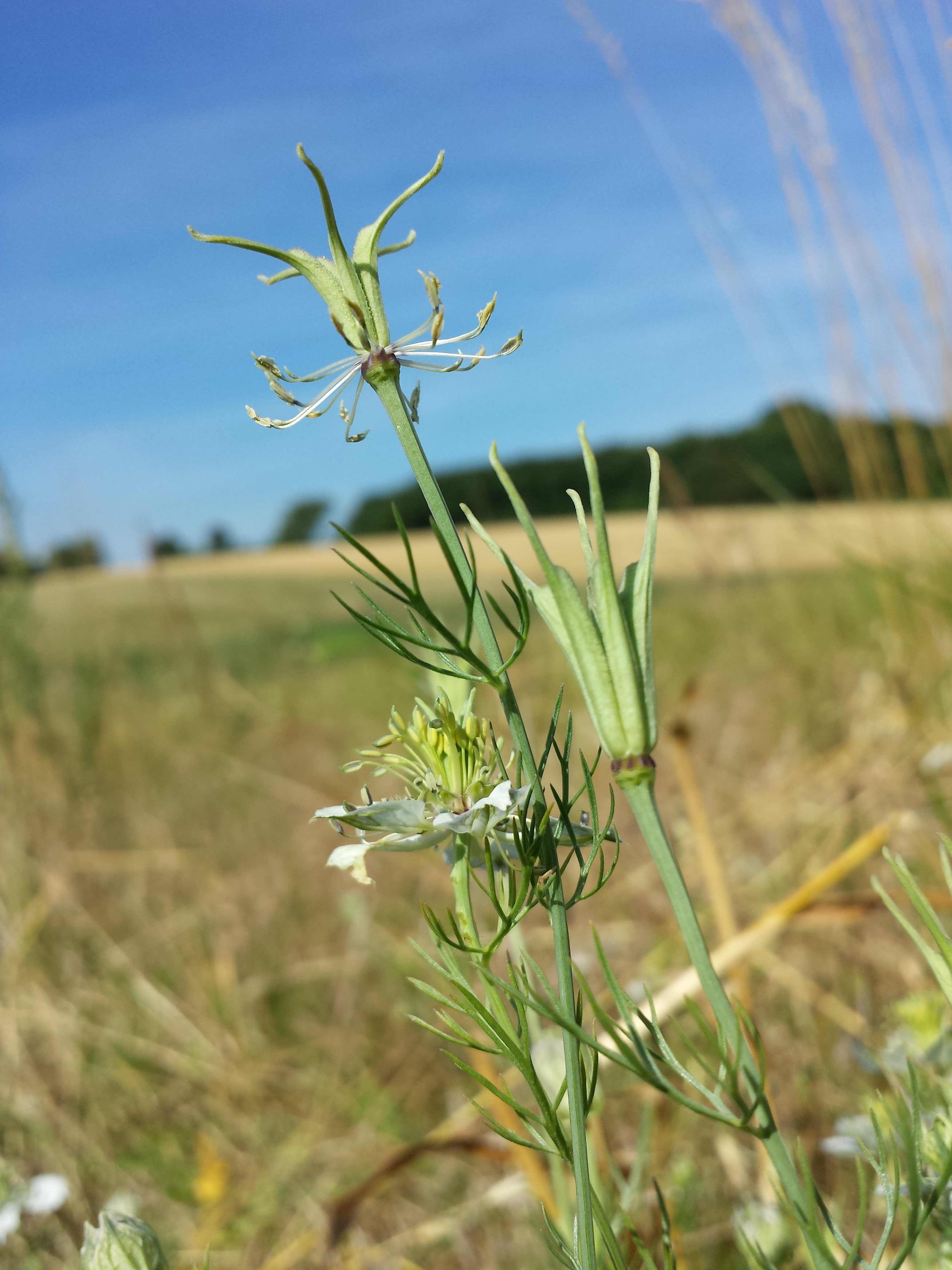 Fruits and flower Taxonym: Nigella arvensis ss Fischer et al. EfÖLS 2008 ISBN 978-3-85474-187-9 Location: fallow land near Alte Schanzen, Floridsdorf, Vienna - ca. 225 m a.s.l. Habitat: fallow land